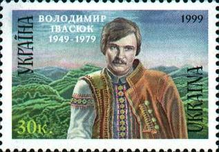 Stamp of Ukraine